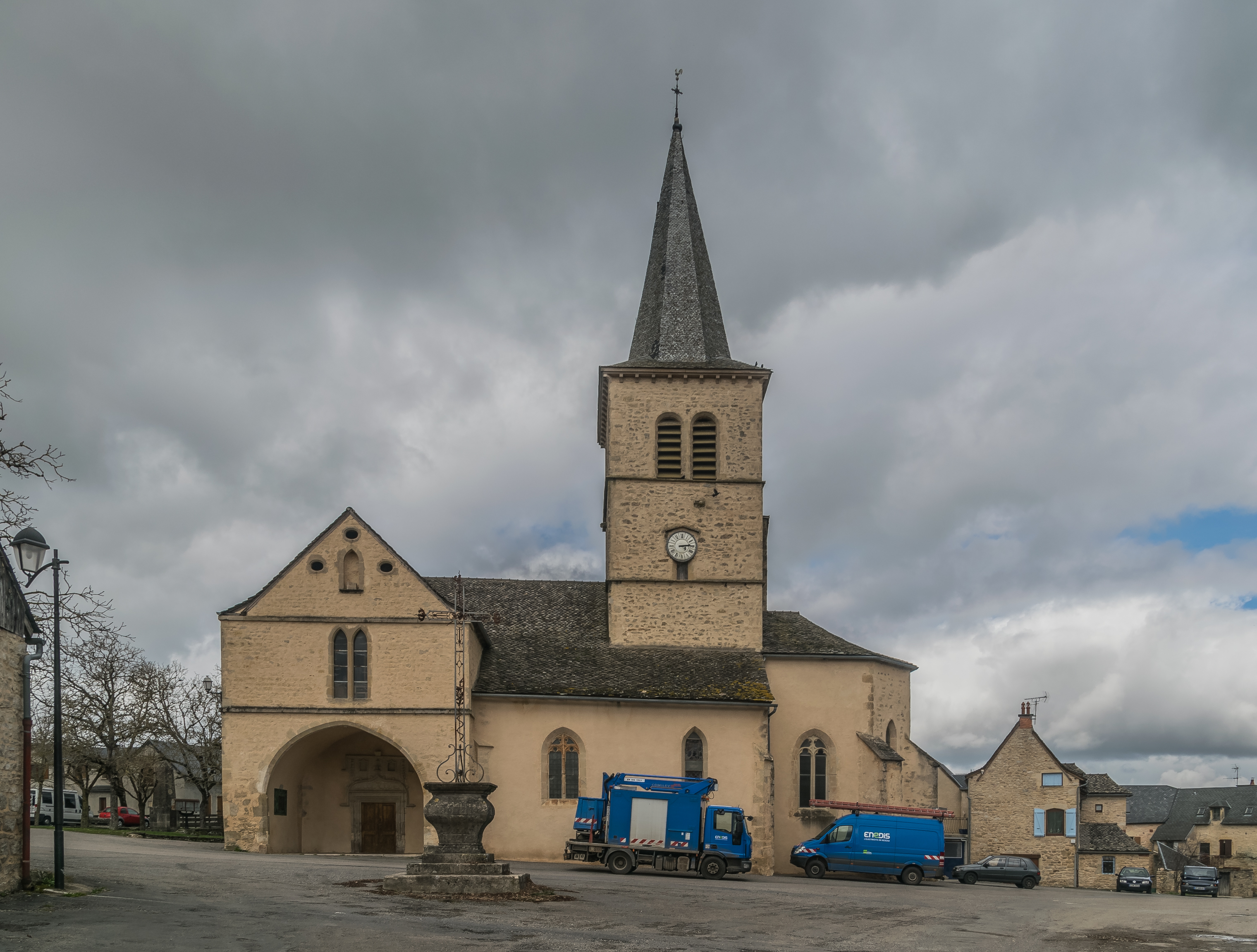 Church of Balsac, Aveyron, France